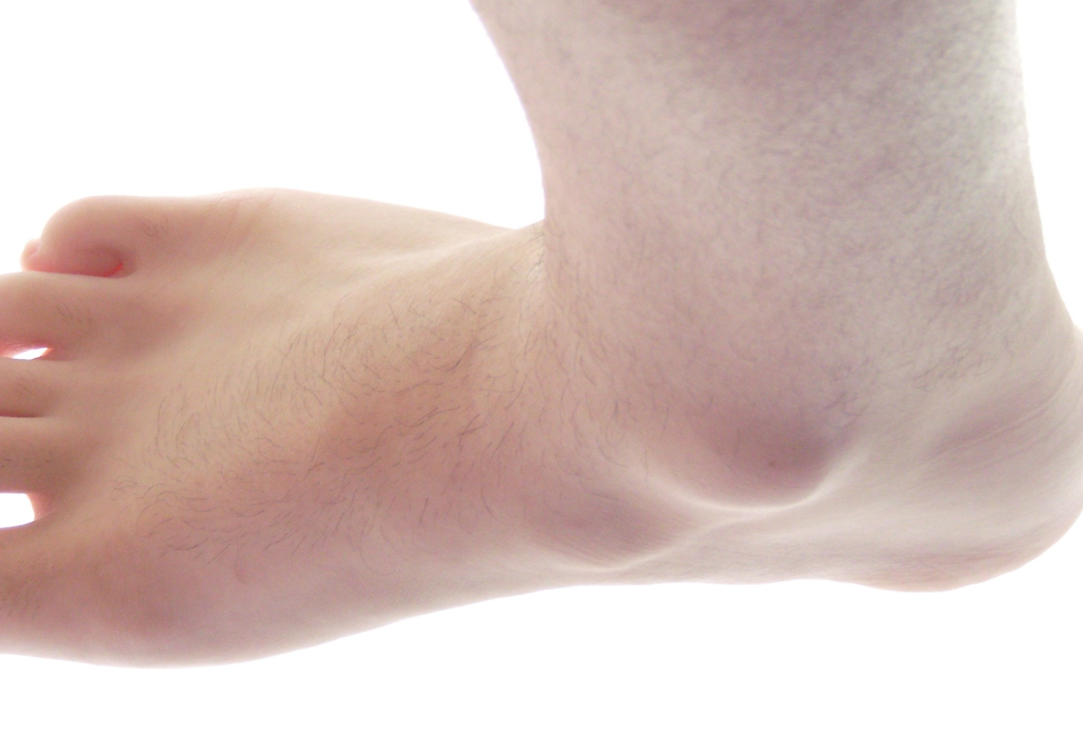 Ankle (malleolus)